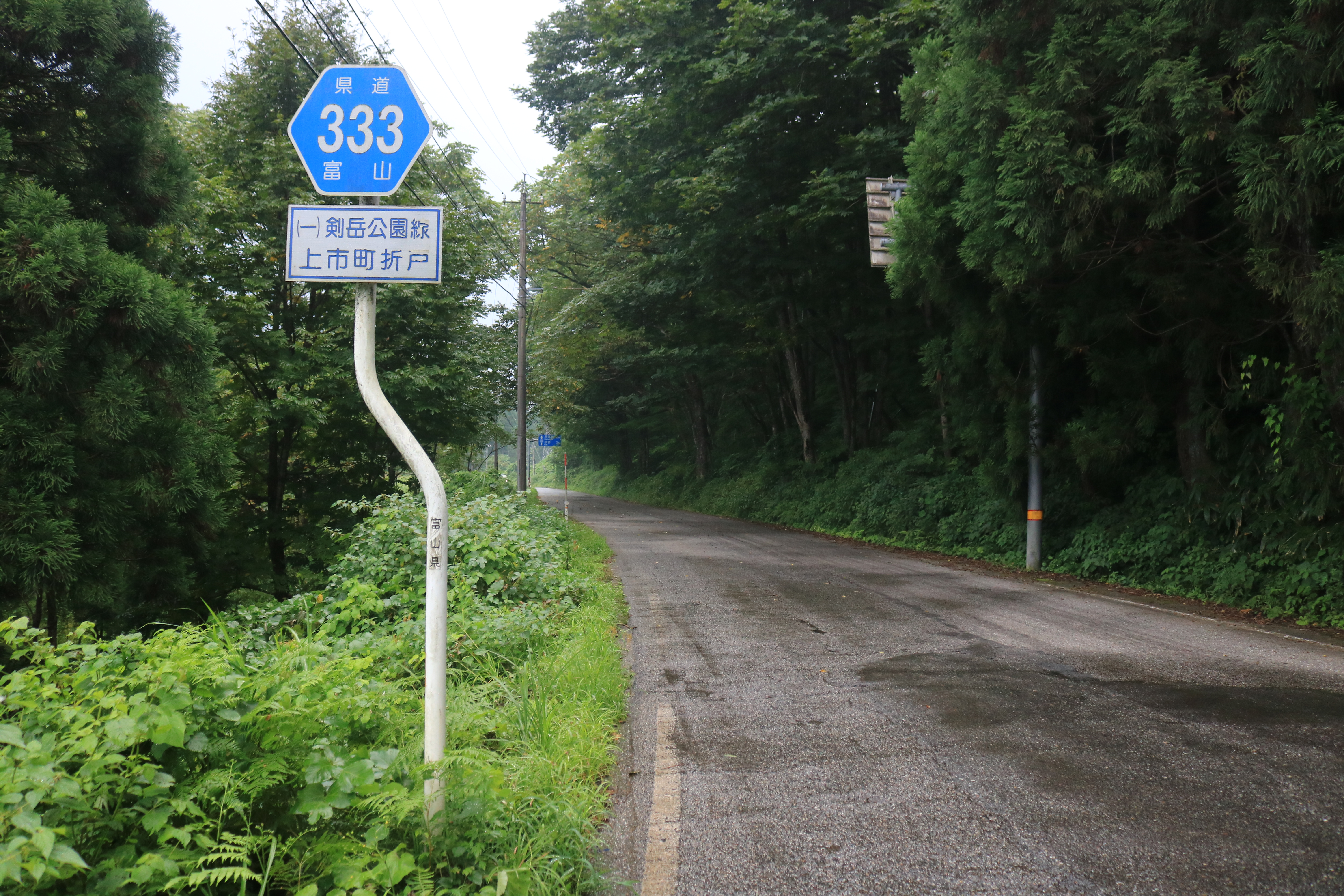 Toyama Prefectural Road Route 333 in Orito, Kamiichi, Toyama prefecture, Japan.